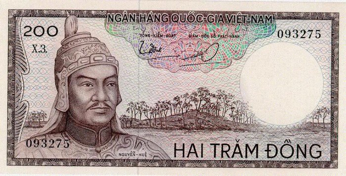 Vietnam currency